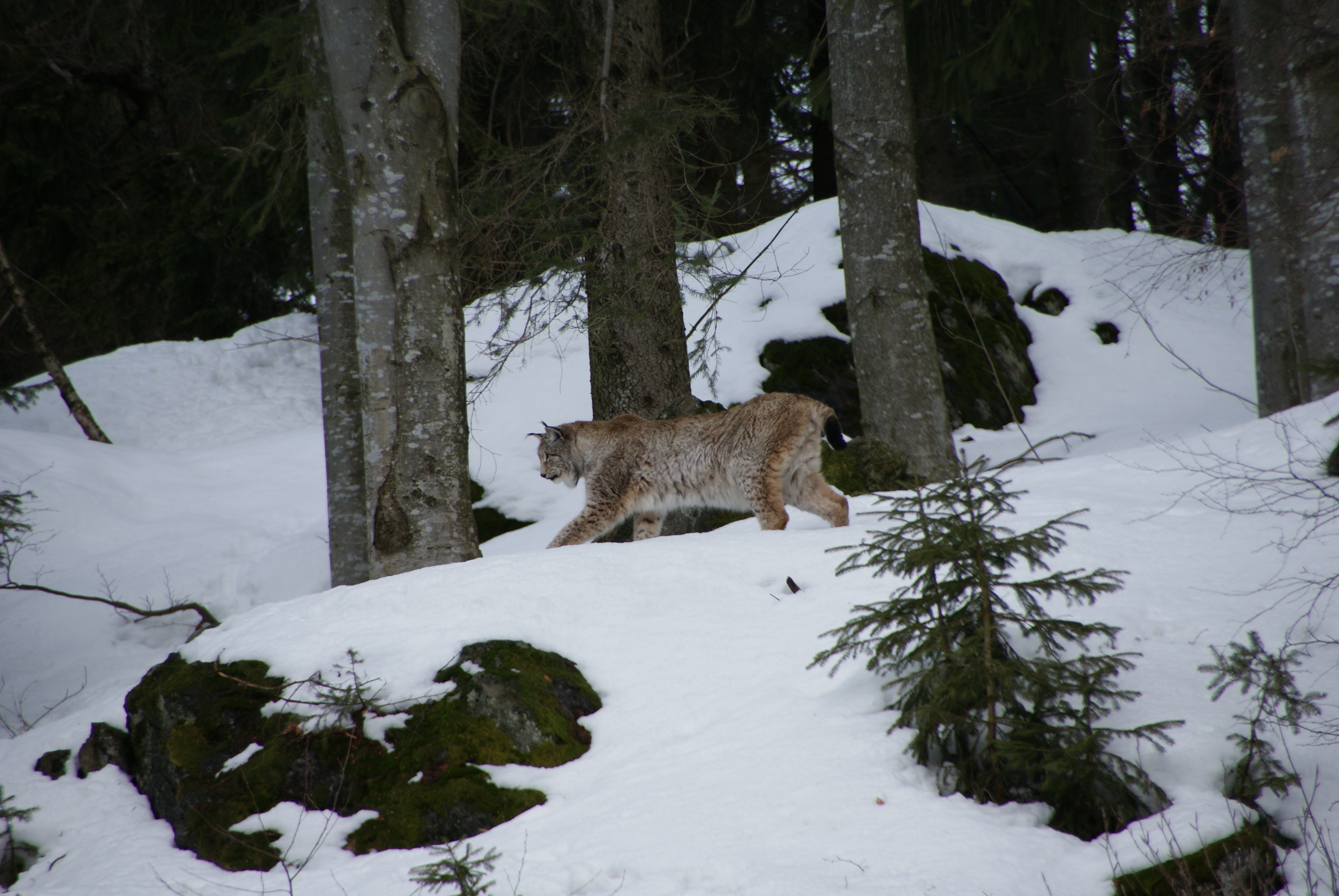 Lynx in National Park Bavarian Forest